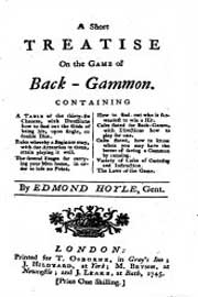 Cover of :Treatise on back-gammon by Edmund Hoyle